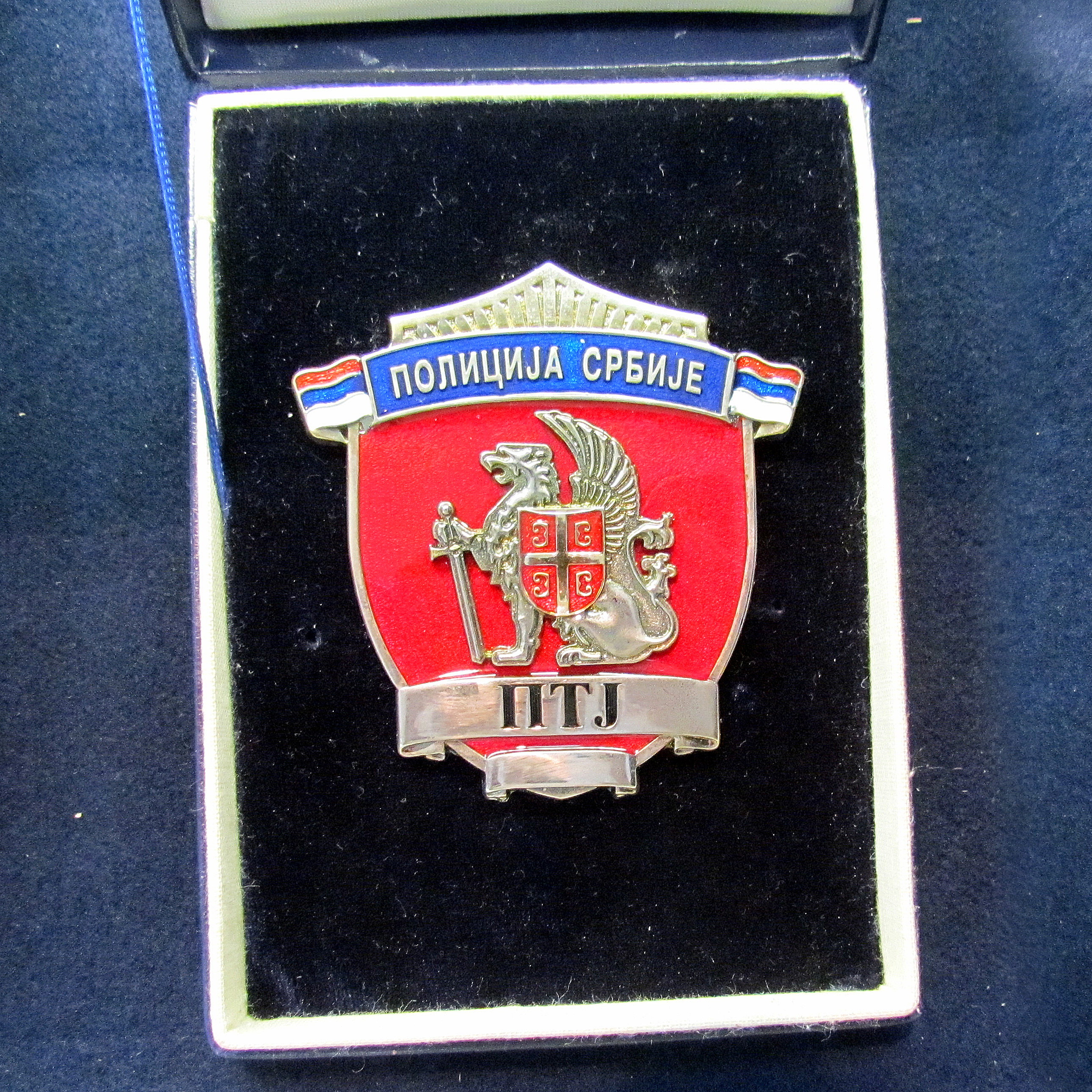 Serbian Counter–Terrorist Unit badge